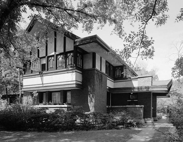 Frederick B. Carter, Jr. House — in Evanston, Illinois. Designed in the Prairie School style, by Walter Burley Griffin in 1910. On the National Register of Historic Places in Evanston. 1967 image: HABS—Historic American Buildings Survey of Illinois, cropped.